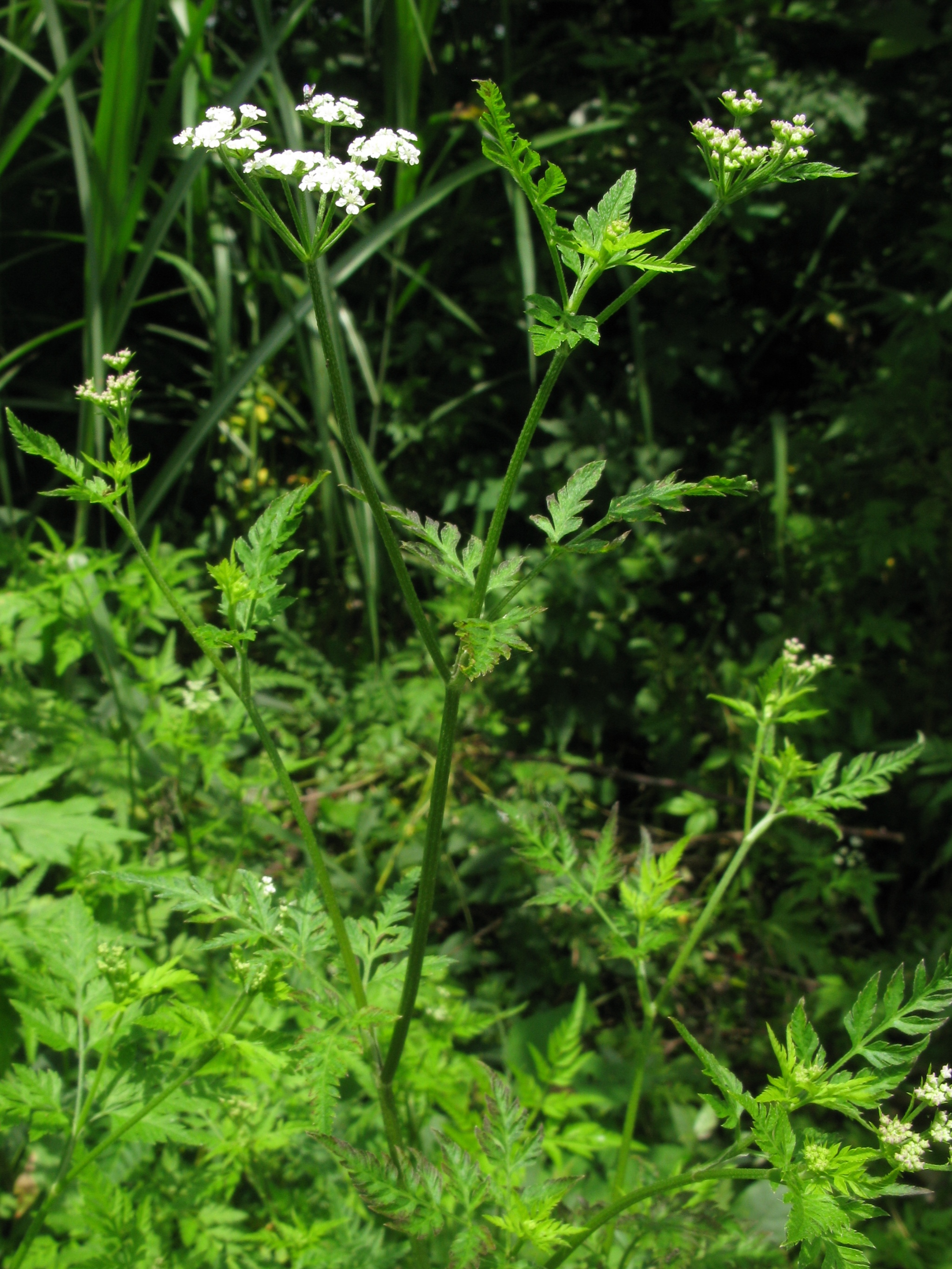 Torilis japonica, Aizu area, Fukushima pref., Japan